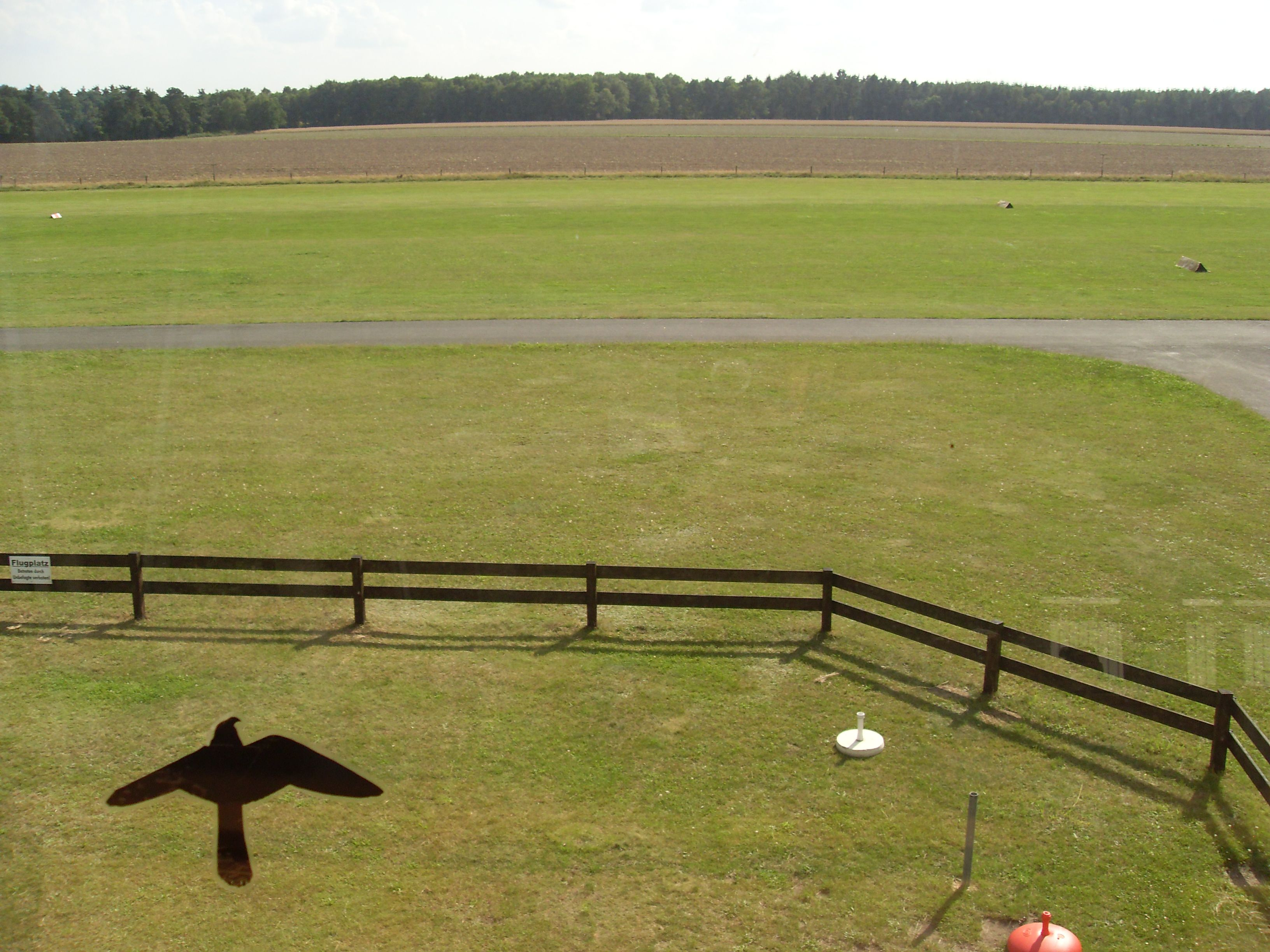 Airport Verden-Scharnhorst, view from tower